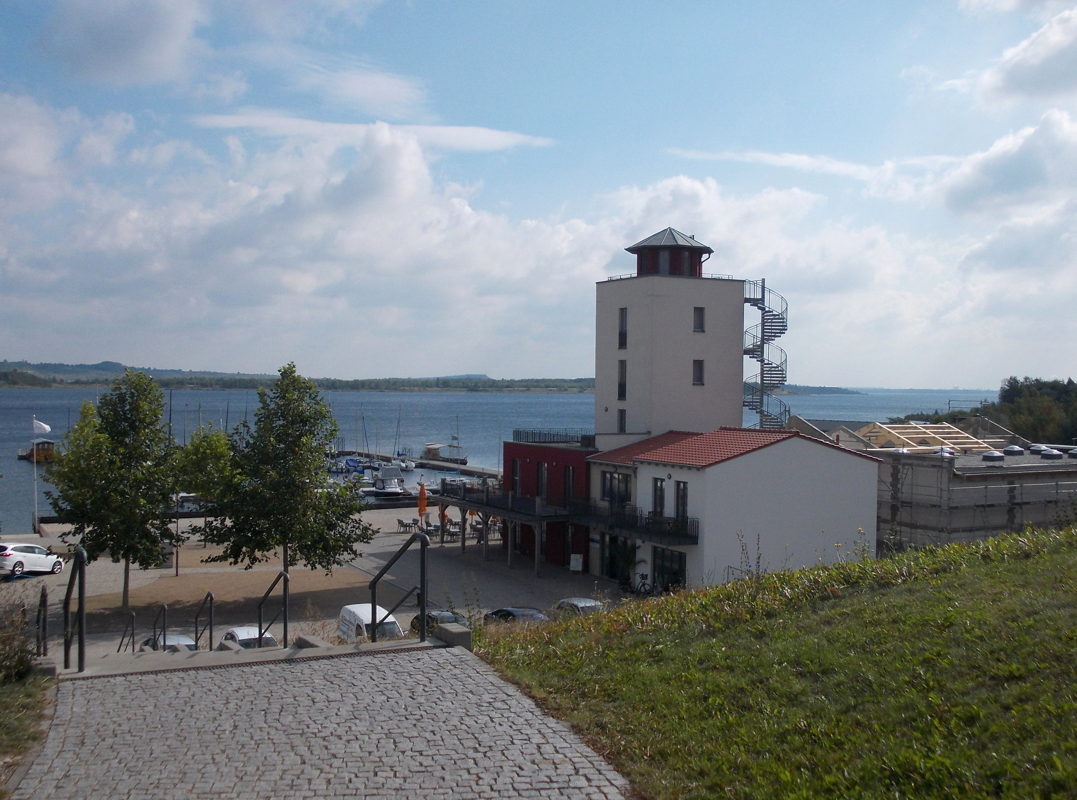 Geiseltal Lake, Mücheln Marina (district: Saalekreis, Saxony-Anhalt)